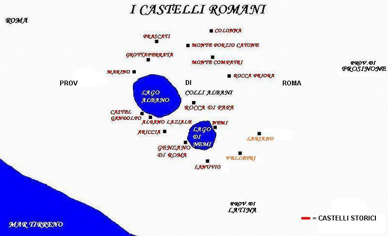 map of roman castle